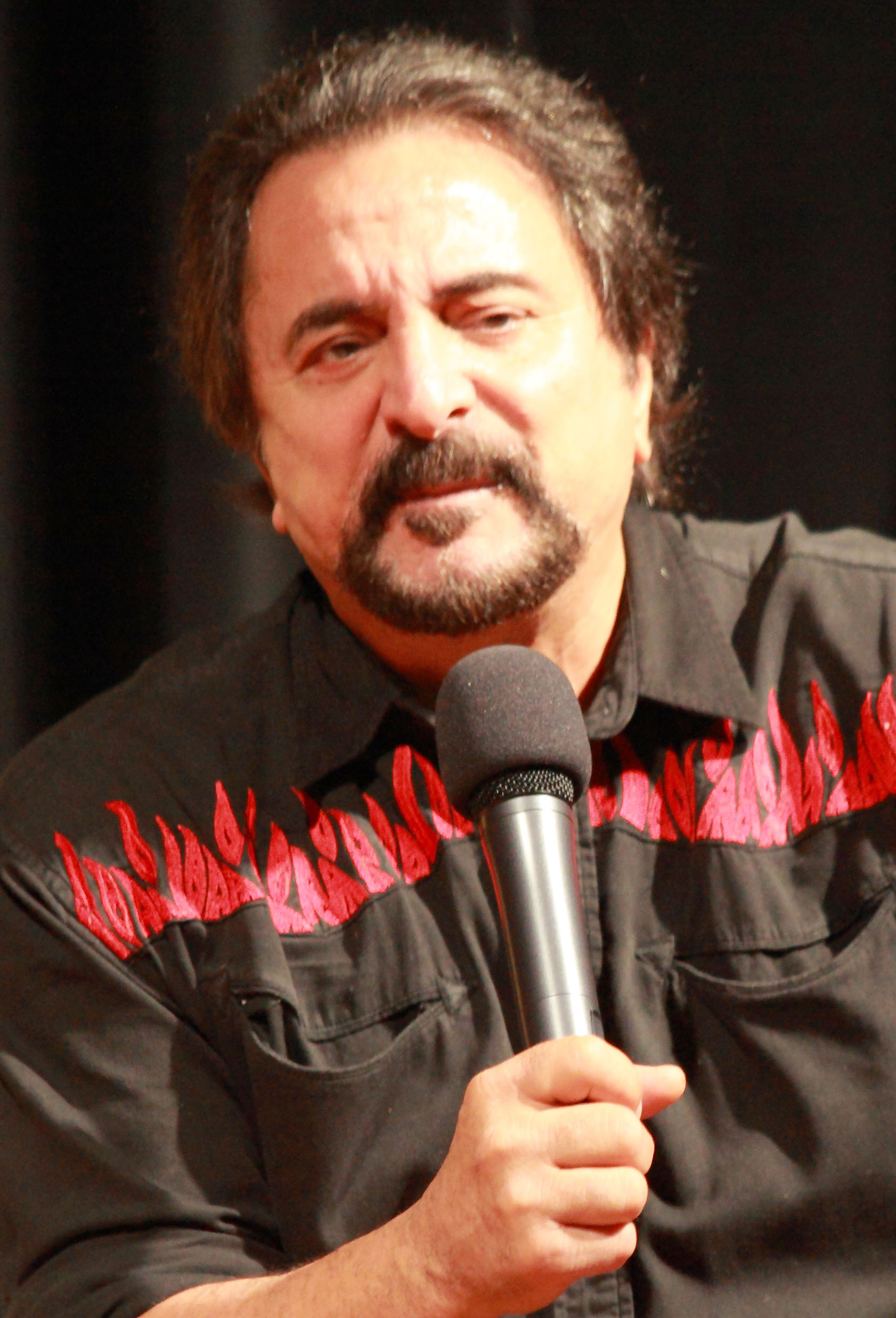 Tom Savini at Spooky Empire's Ultimate Horror Weekend 2014 held in Orlando, Florida.